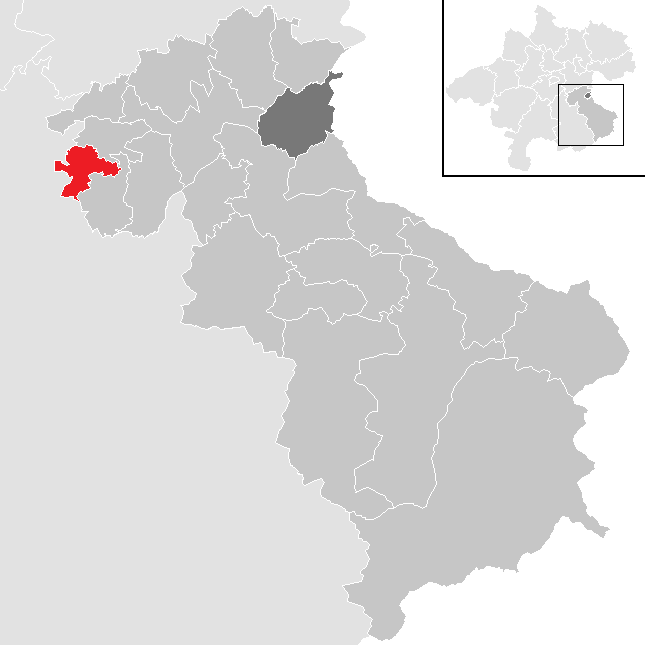 district Steyr-Land